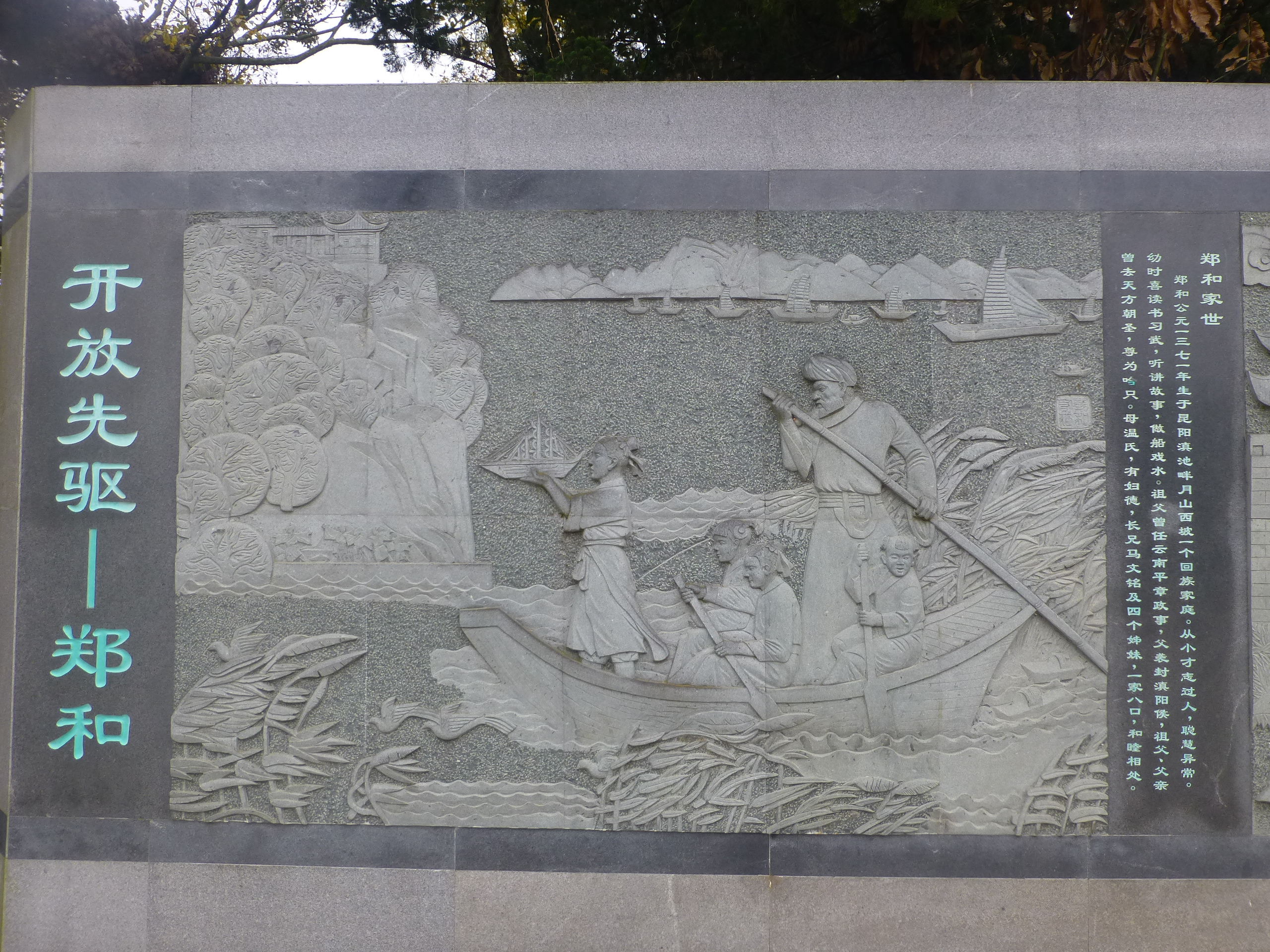 Zheng He Park on the Moon Mountain (Yue Shan) in Kunyang